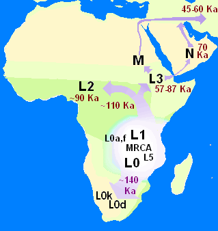 Based on Several studies, Behar et al. 2008, Gonder et al. 2007, Reed and Tishkoff. Two wiki maps of Africa were used as the basis but so heavily modified only the continental outline remains roughly the same.